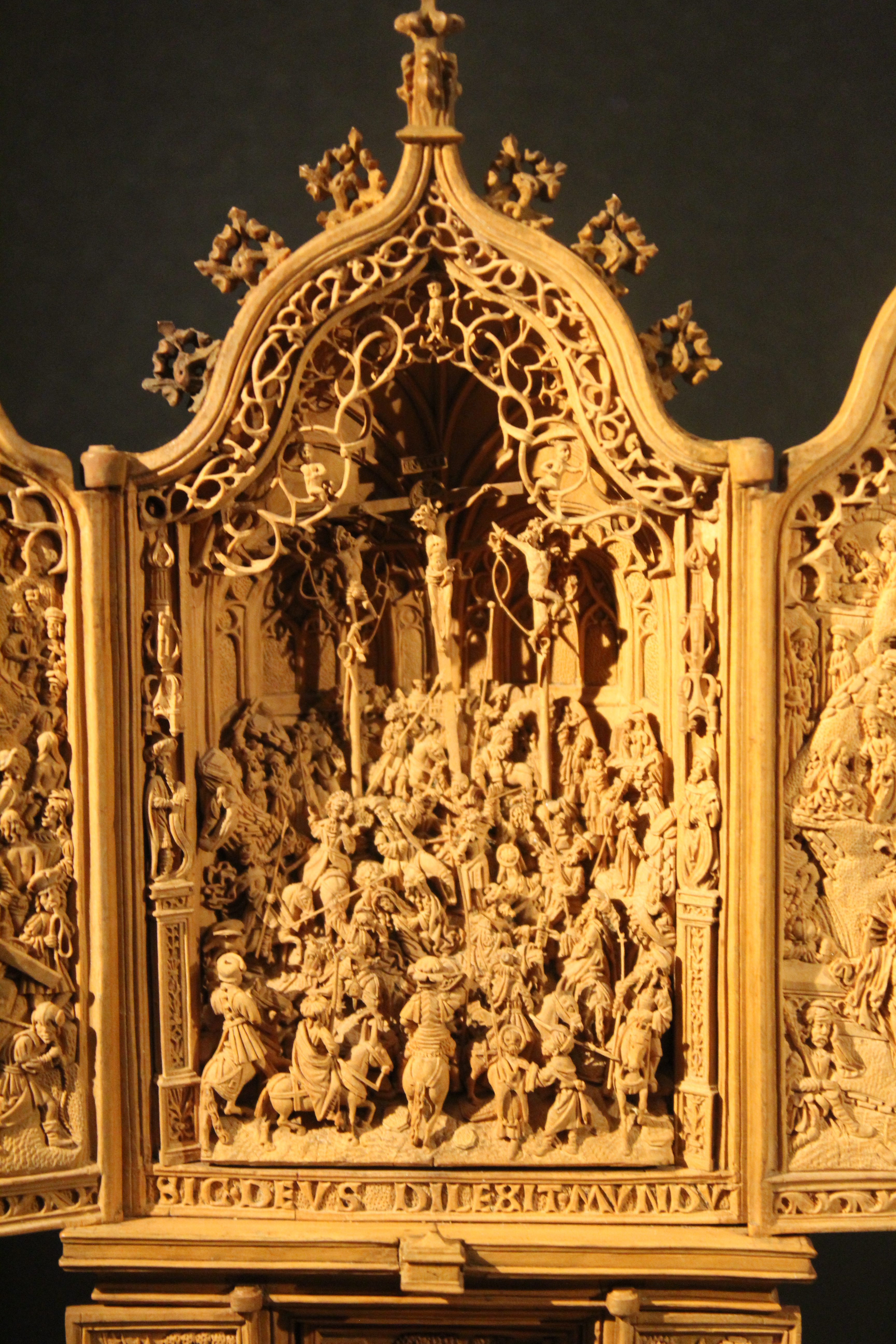 Portable altar, Boxwood, circa 1511, with thanks to British Museum for allowing photography